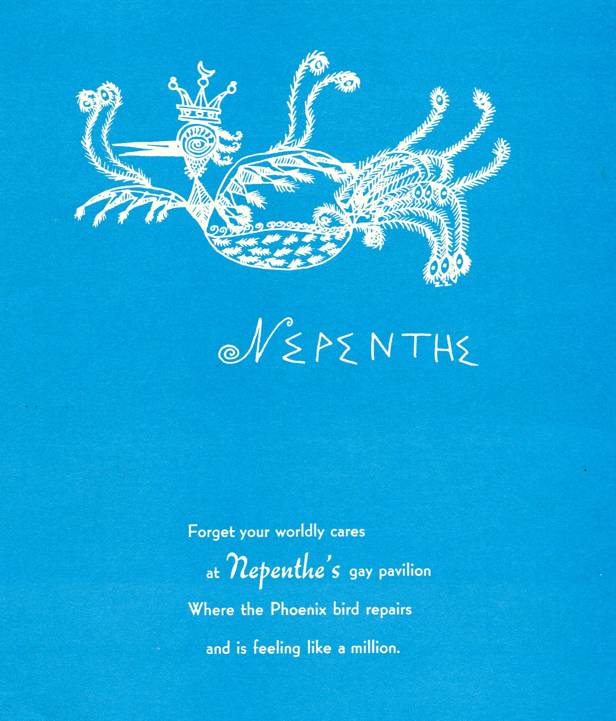 Repository: California Historical Society Digital object ID: CHS2013.1447 Call number: MENU COL Collection: California menu collection Date: undated Preferred citation: Menu, Nepenthe, [near Carmel], California menu collection, courtesy, California Historical Society, CHS2013.1447.jpg. Online finding aid